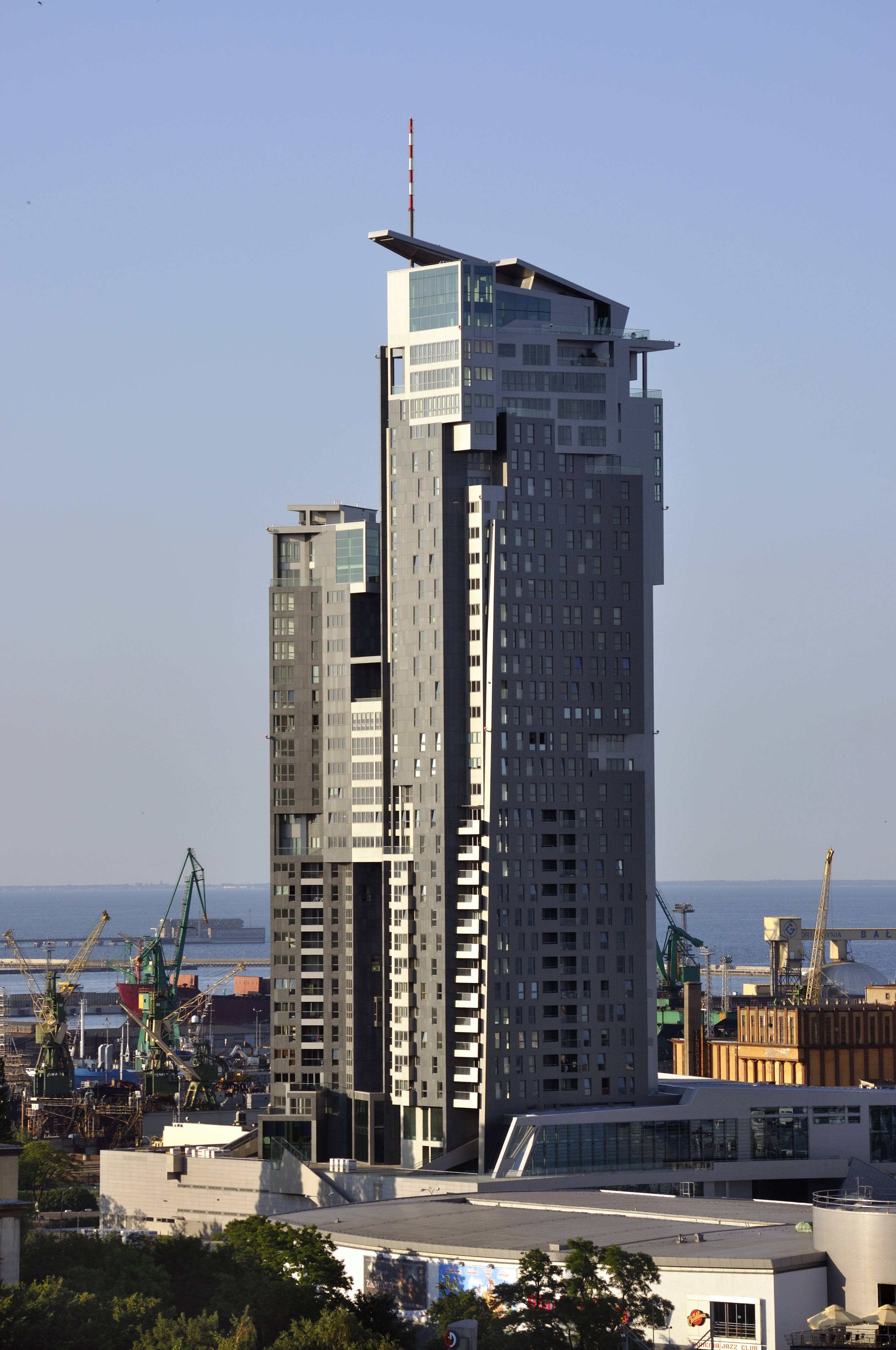 Picture taken in Gdynia after Wikimania 2010 conference.